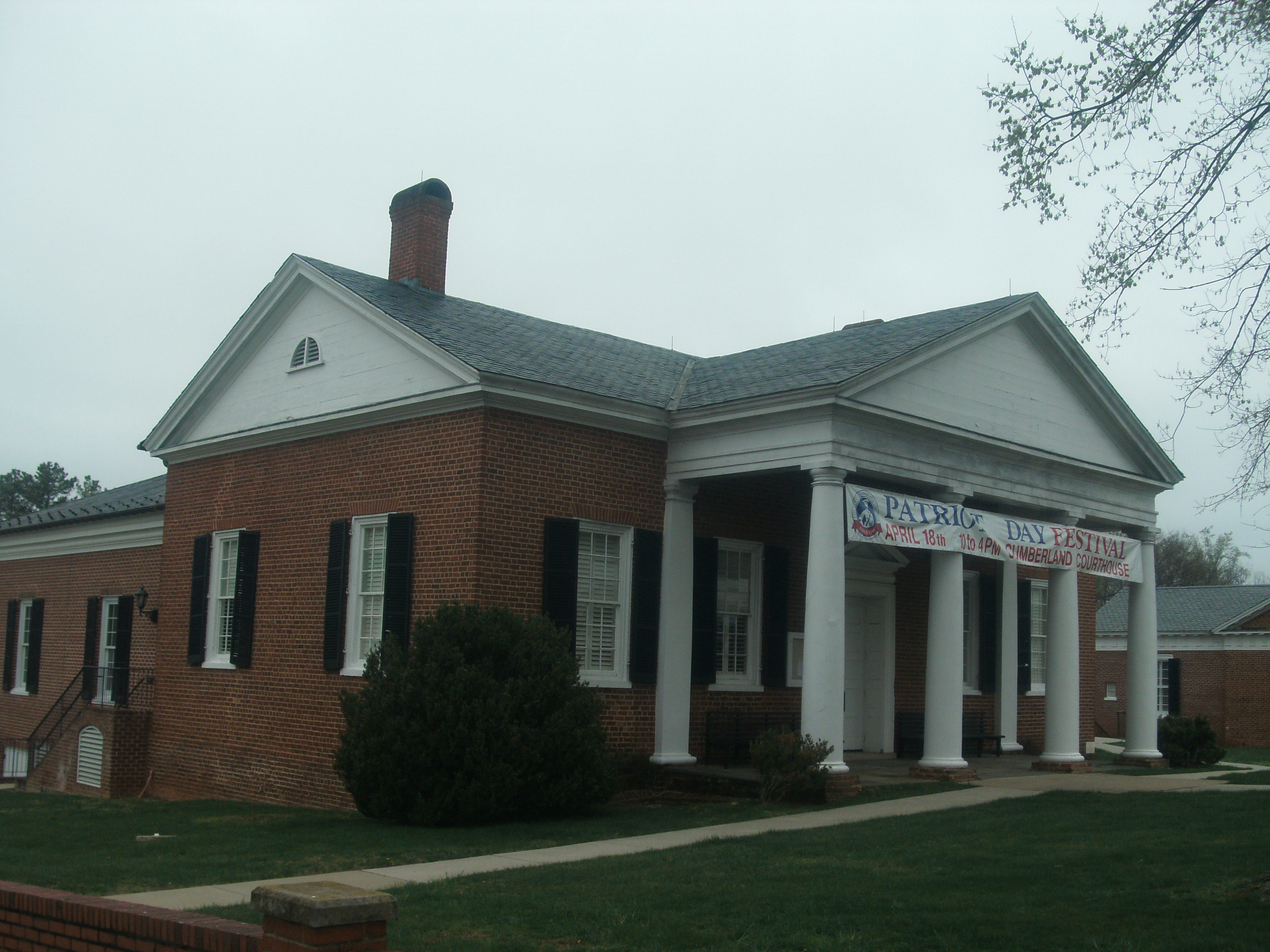 Full view of Cumberland County Courthouse, VA